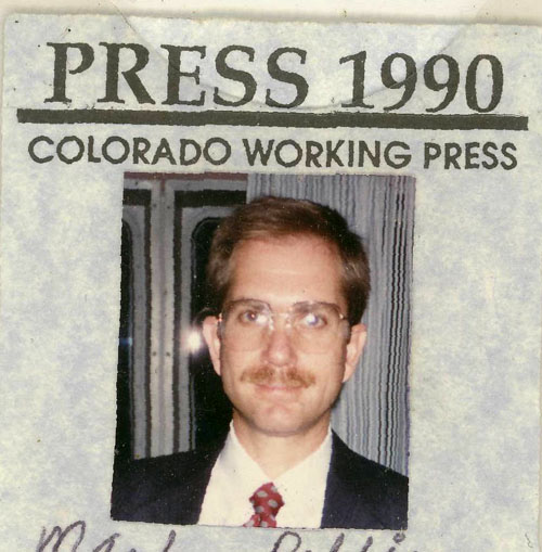 Public presspass document. Scanned and supplied by Mark Robbins. Proprietary information and signature cropped out.